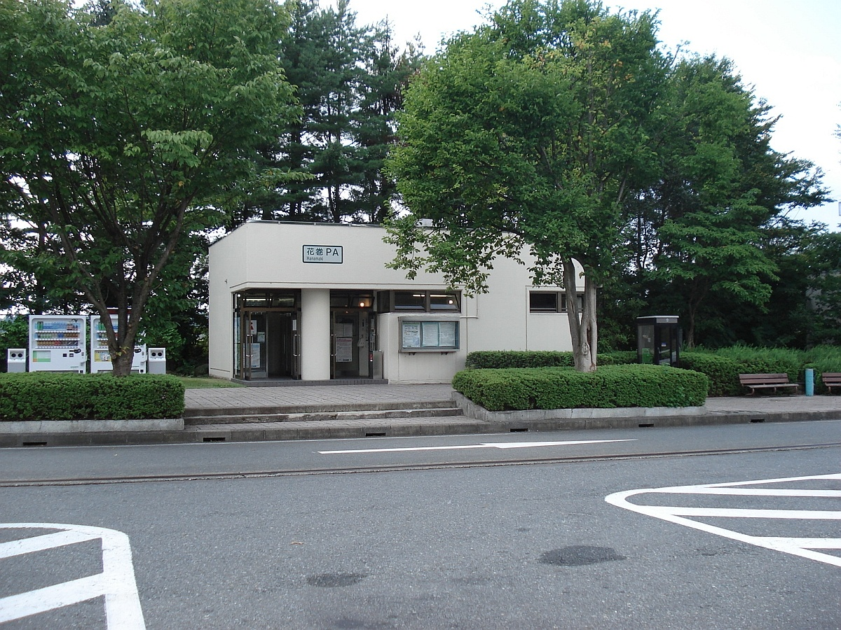 This rest area, Hanamaki Parking Area（for Aomori）, is on Tohoku Expressway, in Hanamaki city, Iwate Prefecture, Japan.